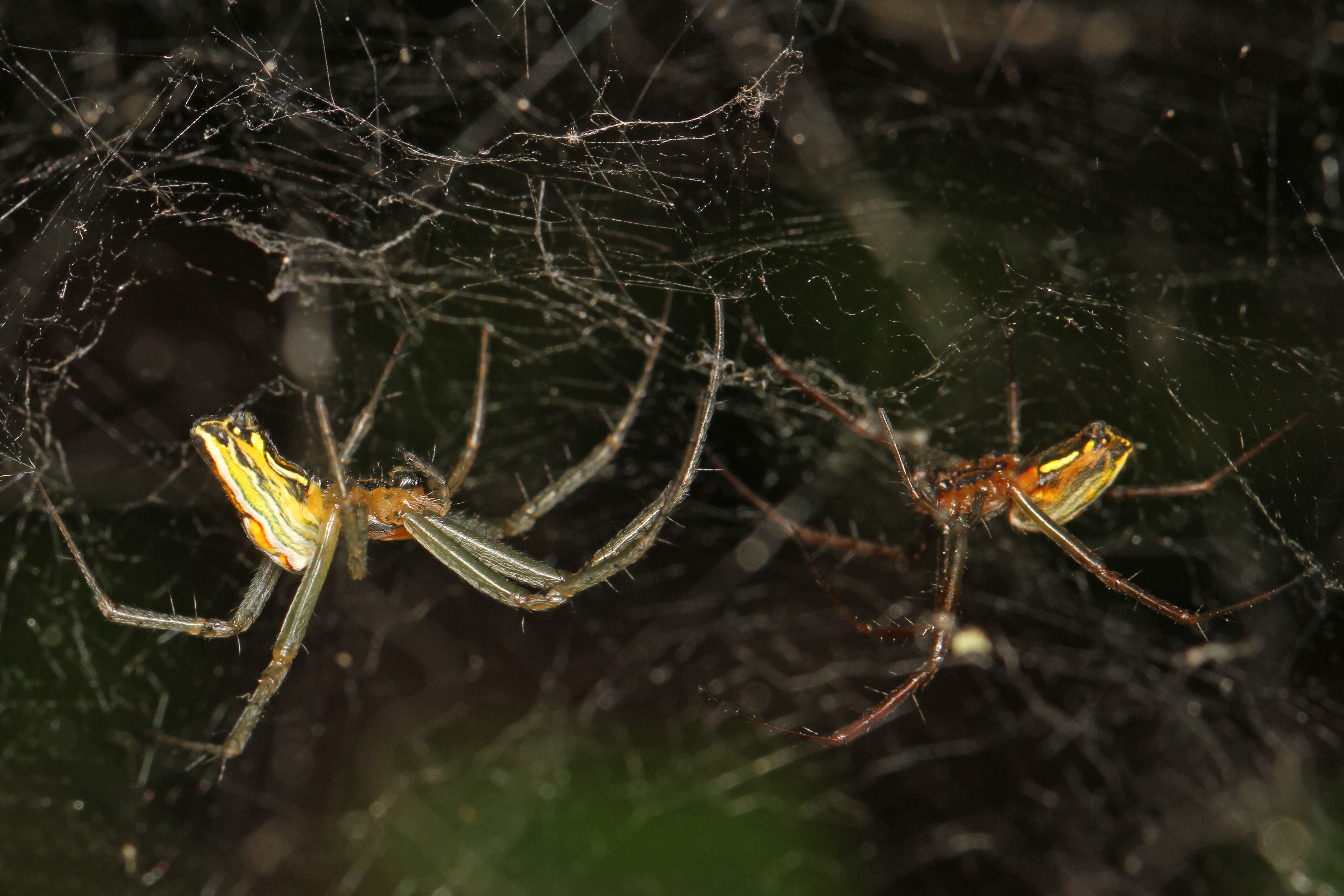 Basilica Orbweaver courtship - Mecynogea lemniscata, Leesylvania State Park, Woodbridge, Virginia